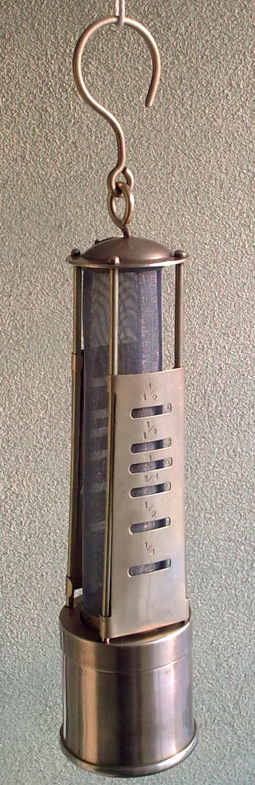 Replica of a Pieler lamp, a derivative of the Davy lamp. The Pieler lamp was used to measure fire damp (methane) concentration in coal mines. By using ethanol as a fuel, the flame only becomes visible in the presence of methane, and moreover, determines the concentration more accurately than a gasoline-fueled lamp. The calibrated apertures on the side are for gaging flame height.